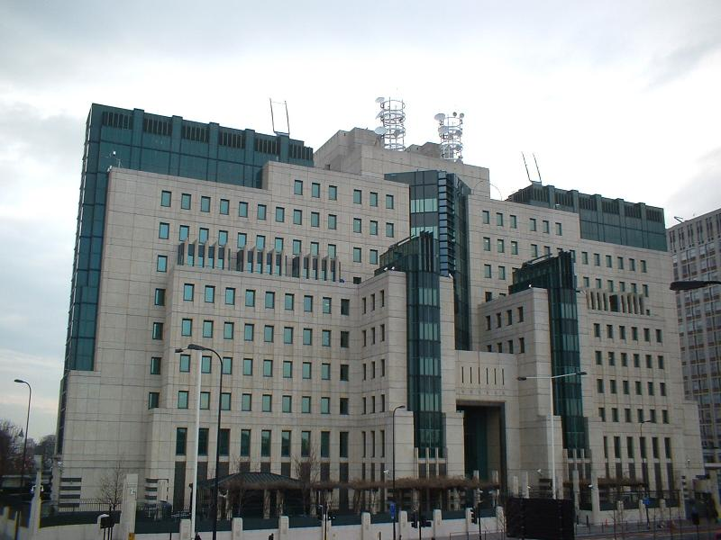 MI6 HQ at Vauxhall taken by C Ford 6th March 04.